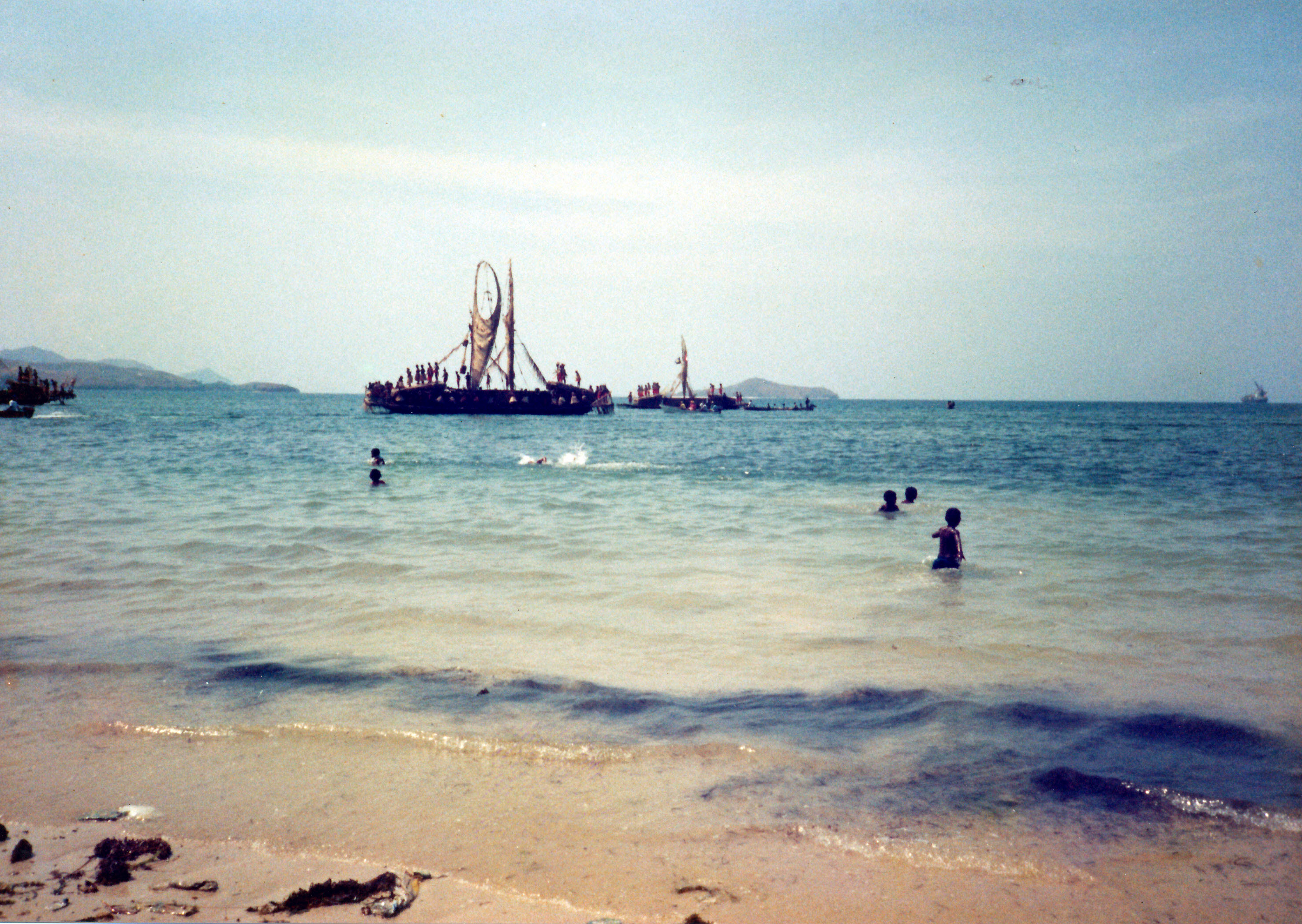 A Hiri expedition arriving at Port Moresby in the 1990s